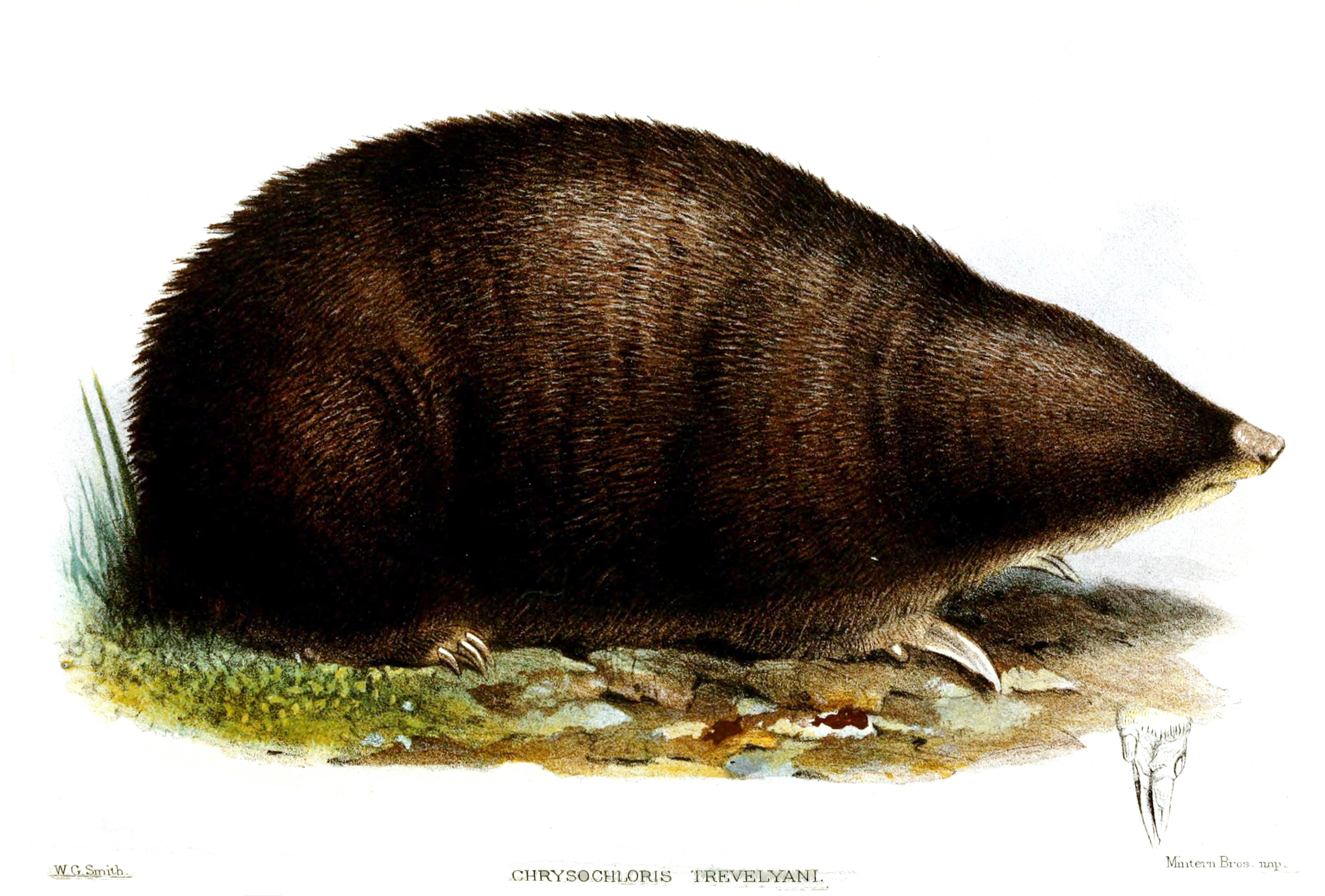 Chrysochloris trevelyani (sic) =Chrysospalax trevelyani